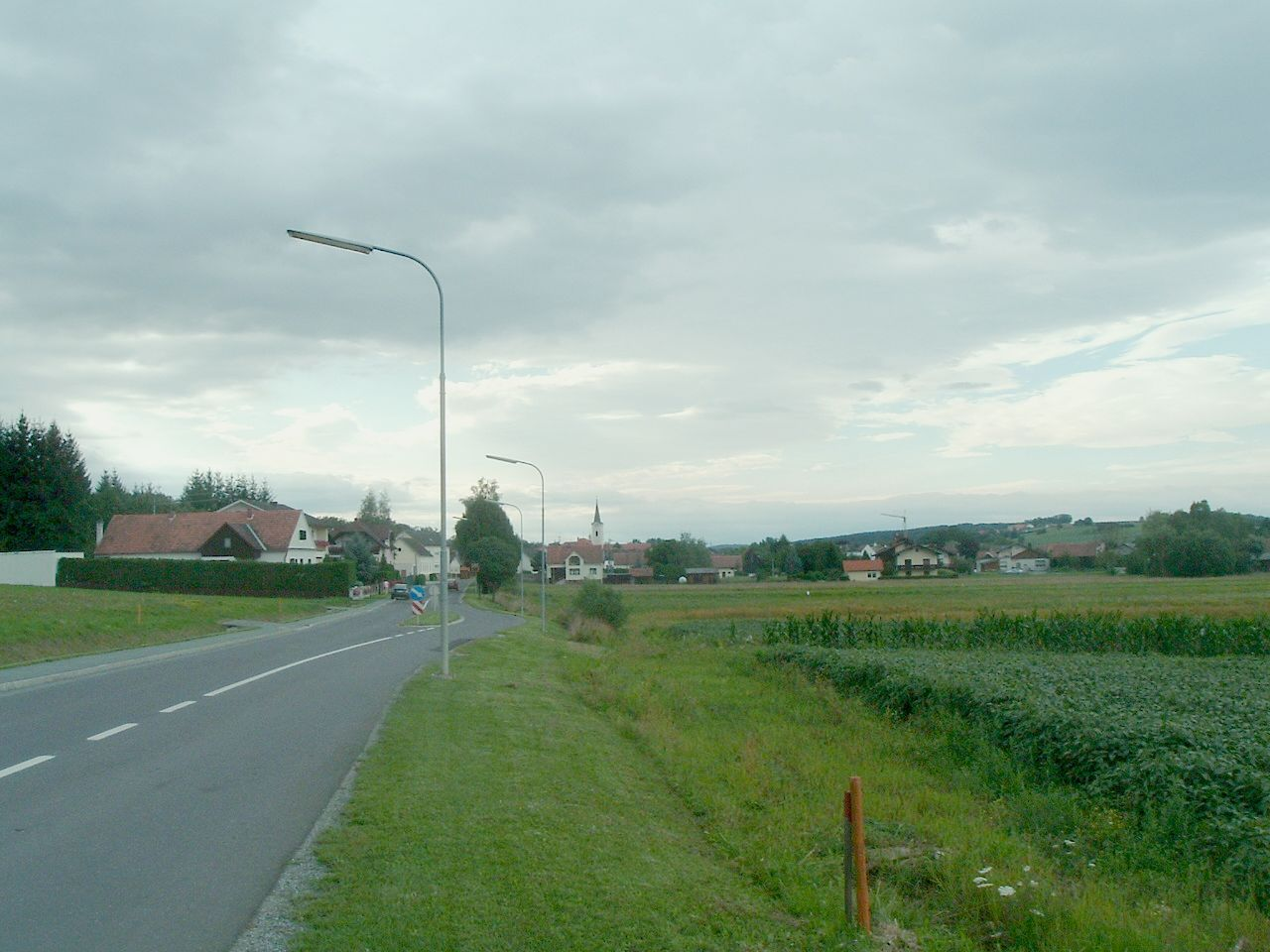 Mischendorf (Pinkamiske), Burgenland